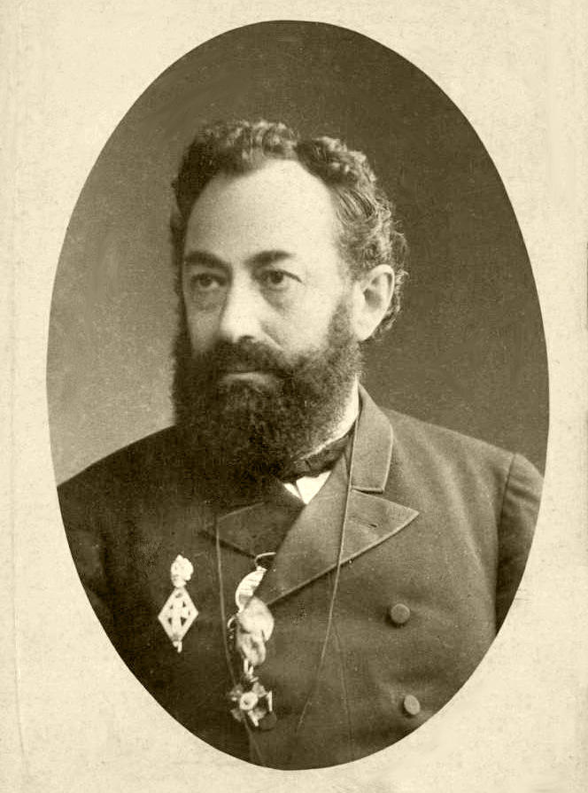 picture of Hayyim Jonah Gurland